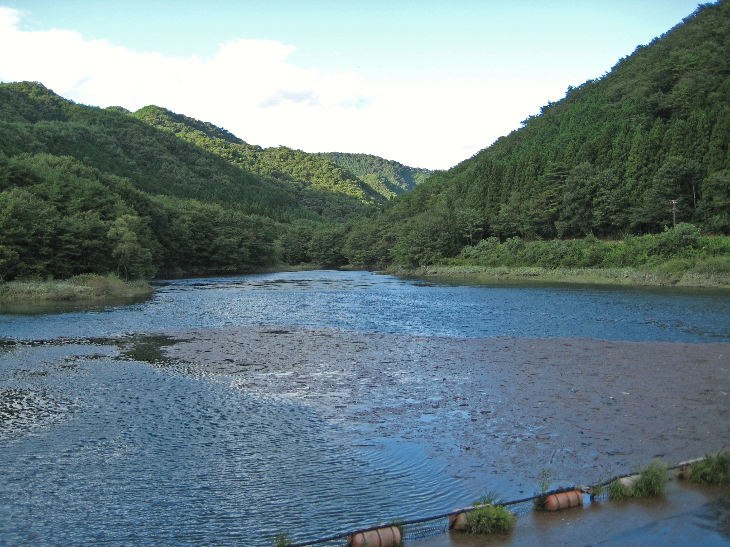 Nishigoya Dam lake.